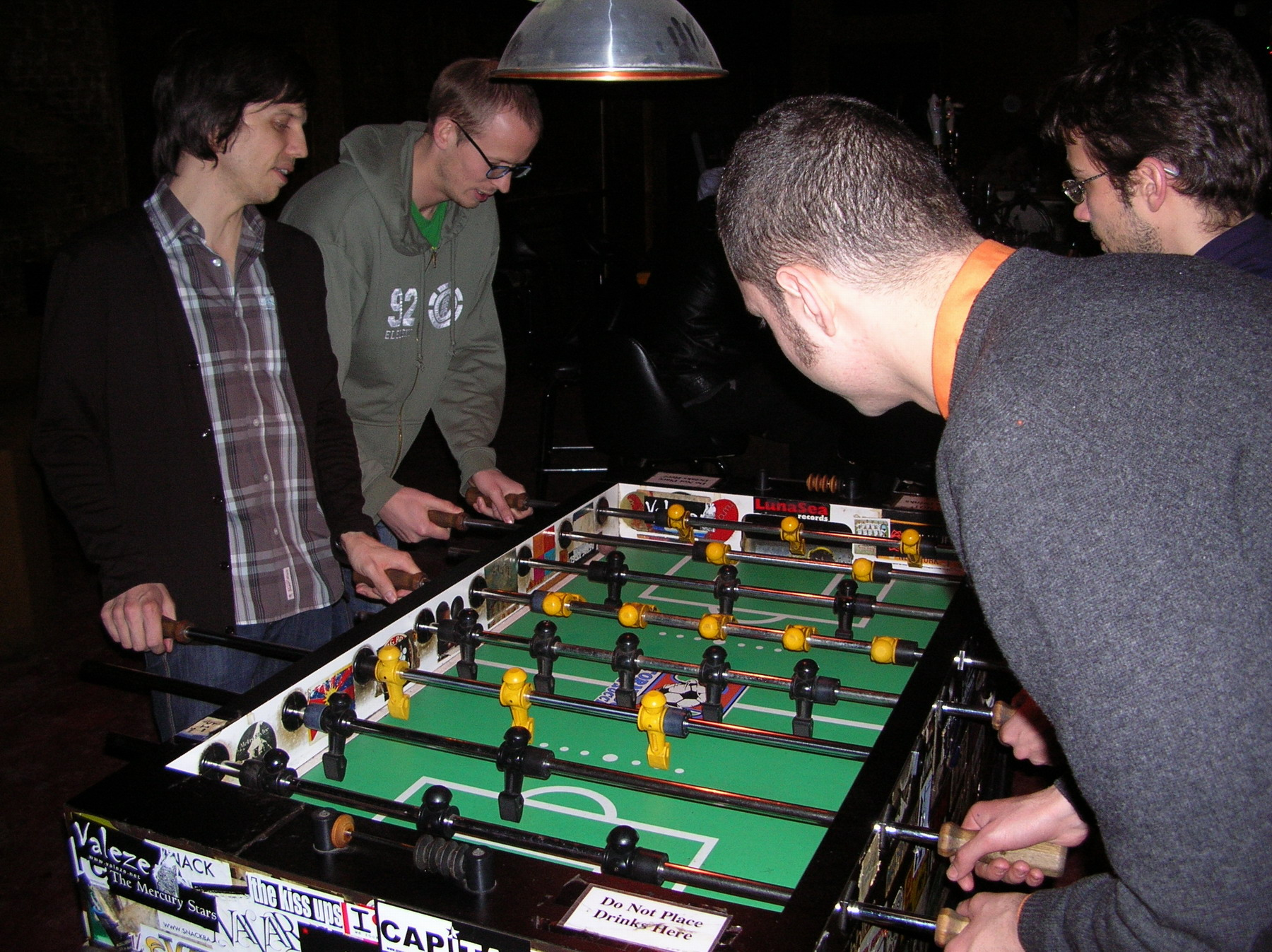 A table football (calcio balilla, pebolin, totò, futbolín, tafelvoetbal, Stolni nogomet, baby-foot, calciobalilla, tischfußball...) in New York, march 2005, own work.